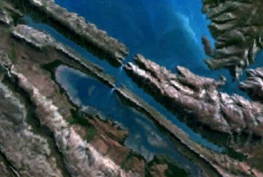 Horizontal Falls, Western Australia. -16° 22' 59.00", +123° 57' 29.00"